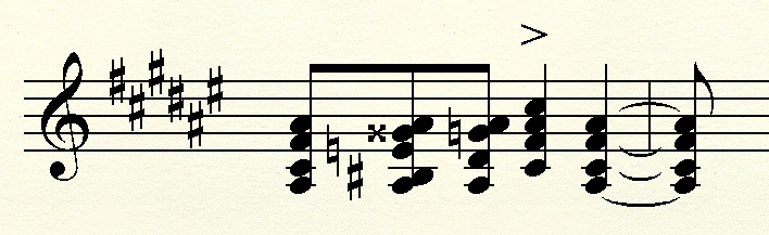 "Theme de Dieu" from Olivier Messiaen's "Vingt Regards sur l'Enfant-Jesus"